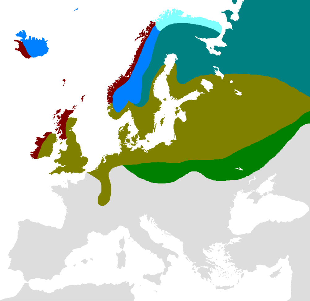 Distribution of mires in Europe Mountain mires Palsa mires Aapa mires Blanket-bogs Raised bogs Wooded mires